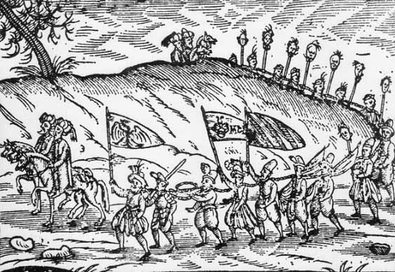 Turks taking away Christian slaves, drawing S. Schweigger 1639